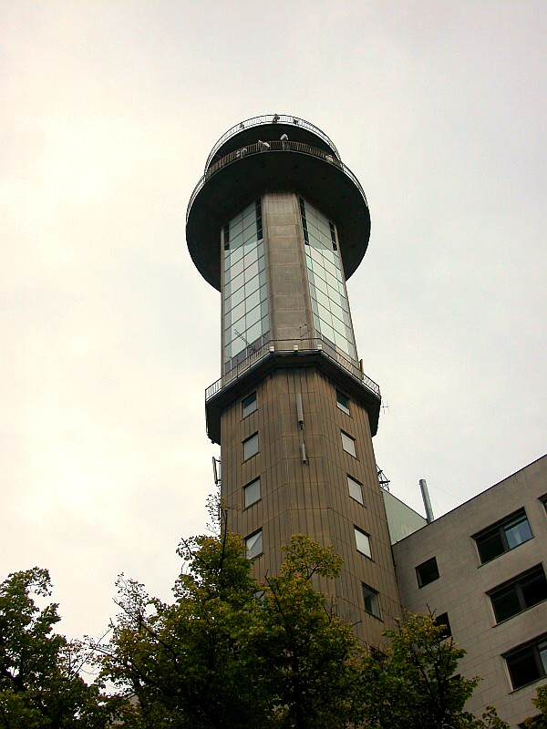 Telefonhuset (from 1959) on Borups Allë in Copenhagen, Denmark Camera: Nikon E5000 License on Flickr (2011-01-24): CC-BY-SA-2.0 Flickr tags: Nørrebro, København, Copenhagen